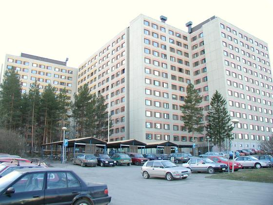 Mikontalo – student housing in Hervanta, Tampere, Finland.